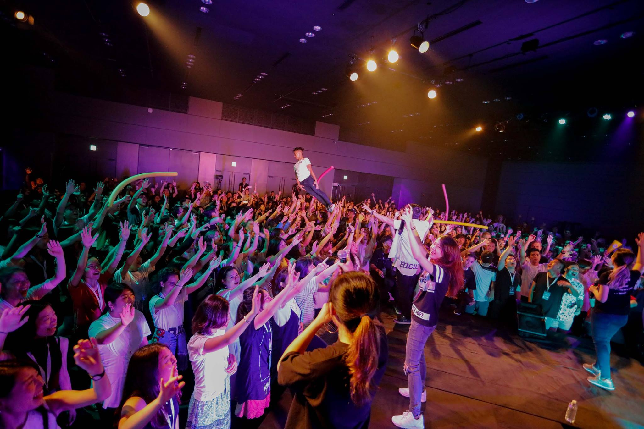 Lifehouse Conference 2017